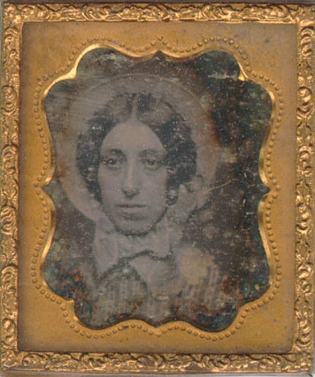 Lucretia Peabody Hale, ca.1850s.